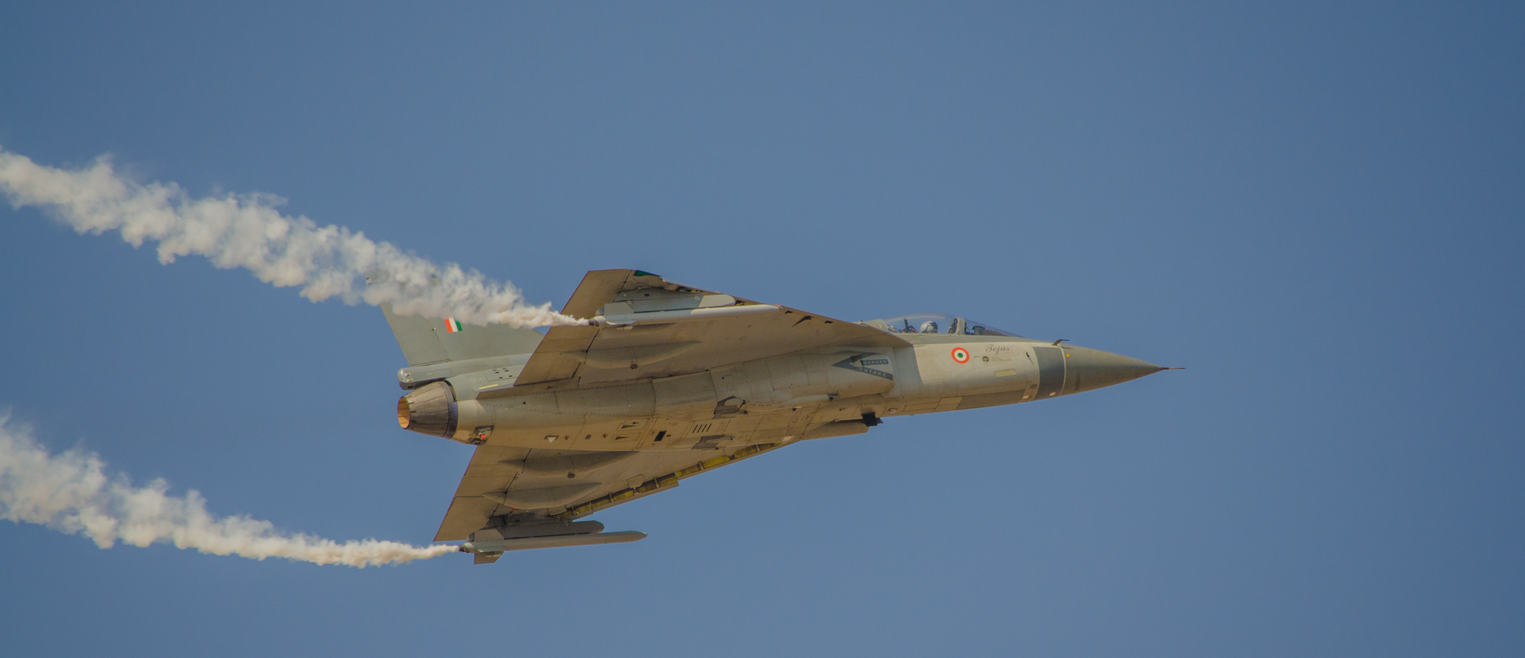 Light Combat Aircraft Tejas